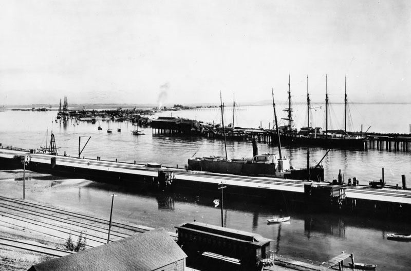 View of L.A. Harbor looking from San Pedro towards Terminal Island and Long Beach, Southern California. Several sailing vessels are anchored in the harbor. Railroad tracks can be seen on the docks.